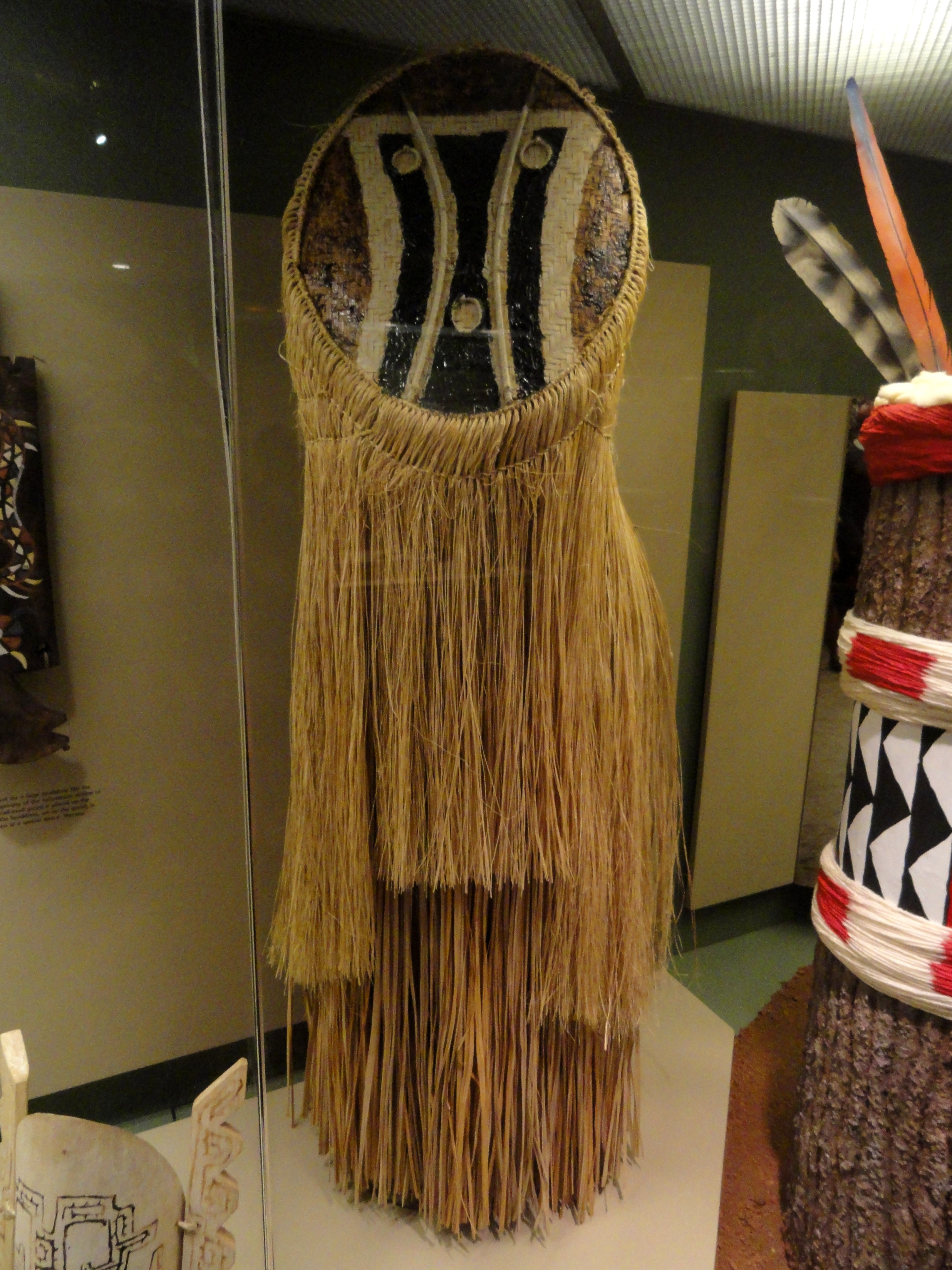 Exhibit in the South American collection of the American Museum of Natural History, Manhattan, New York City, New York, USA.